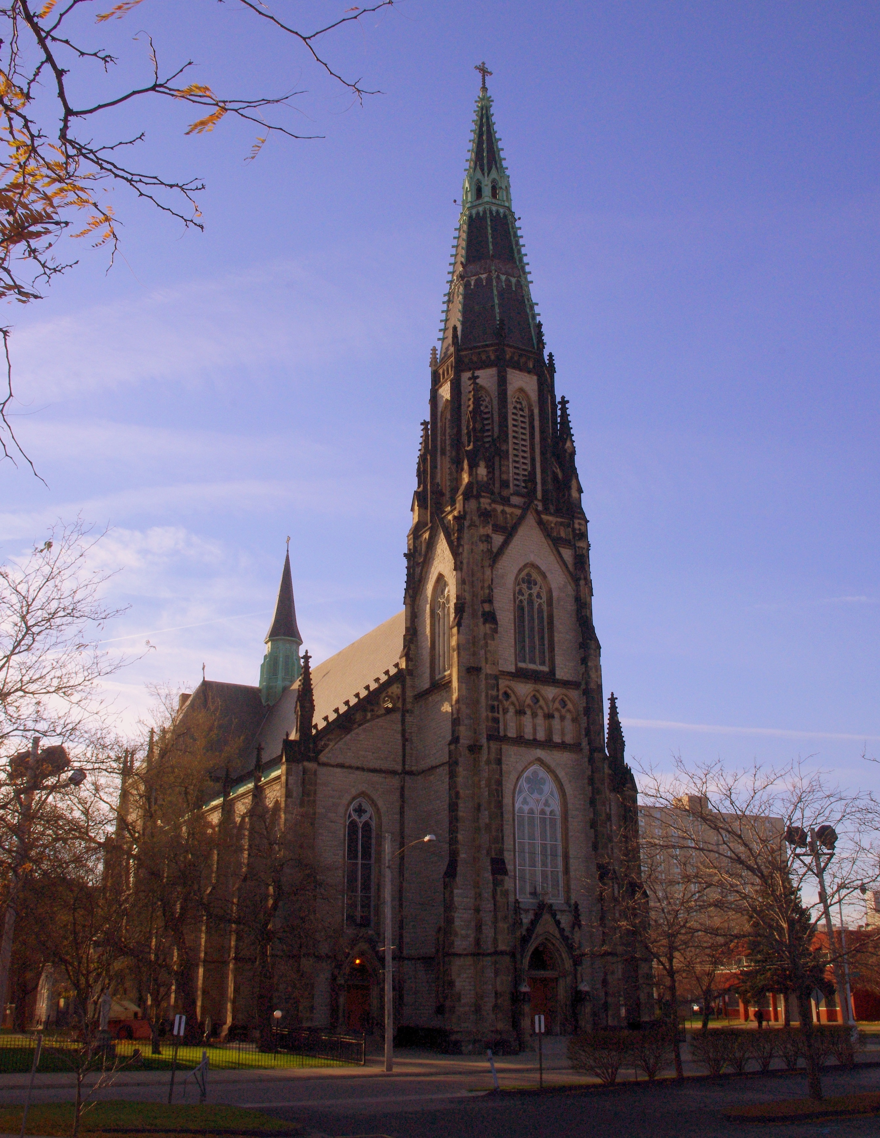 Saint Joseph Catholic Church (Detroit, MI) - exterior, quarter view